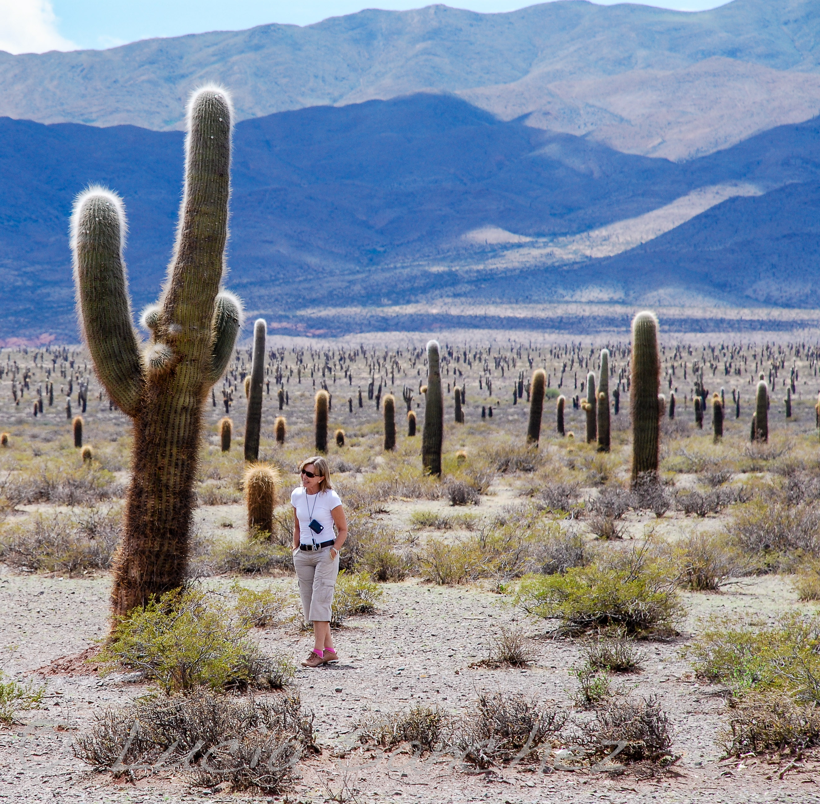 Los Cardones National Park, Salta (Argentina).